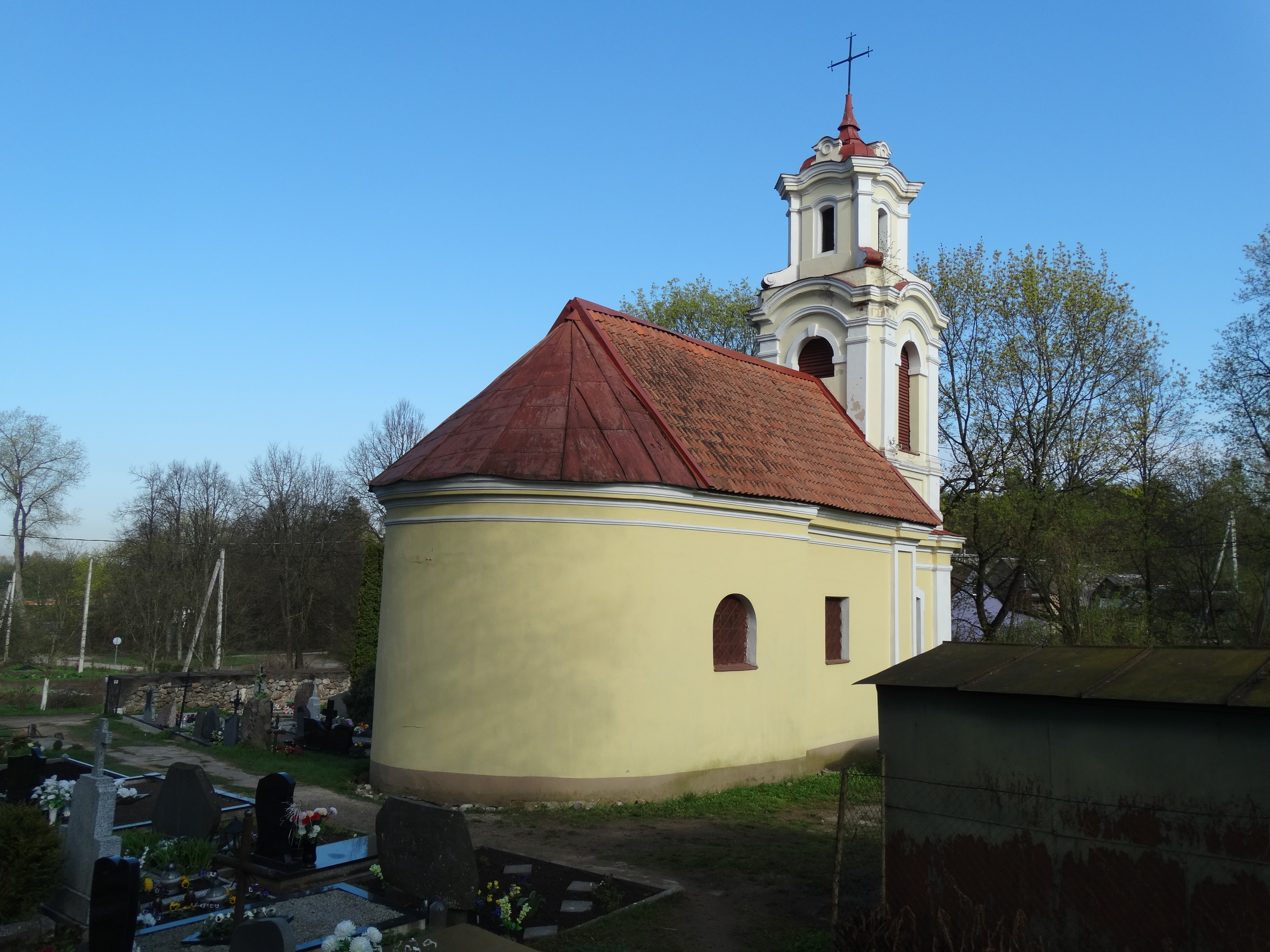 Сhapel of St. Crucified Jesus, Paneriai, Vilnius, Lithuania